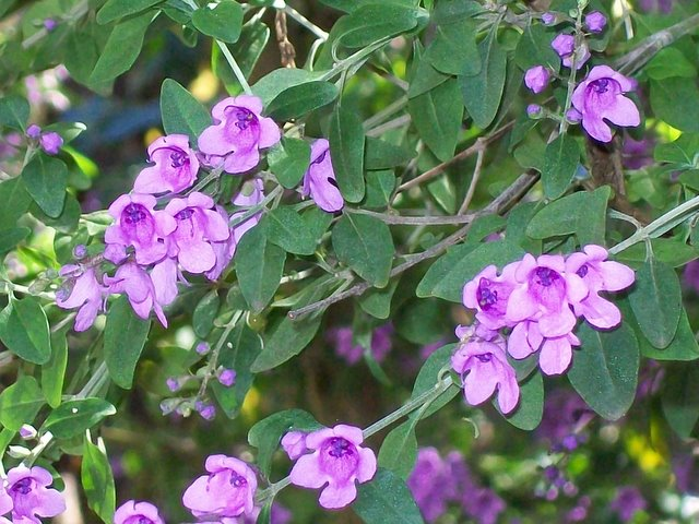 Prostanthera ovalifolia at Eastwood, Australia